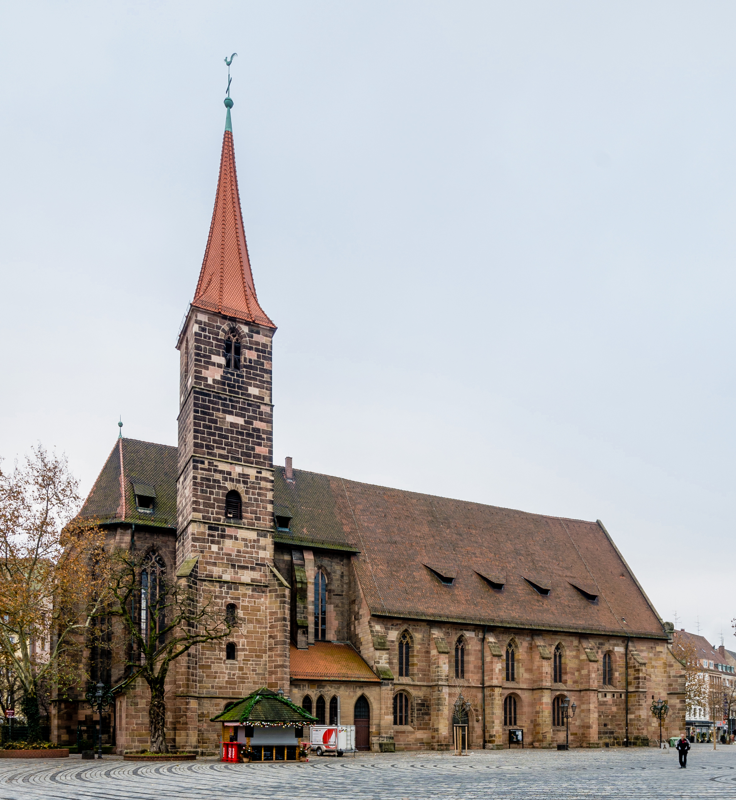 Jakobs Church Nürnberg